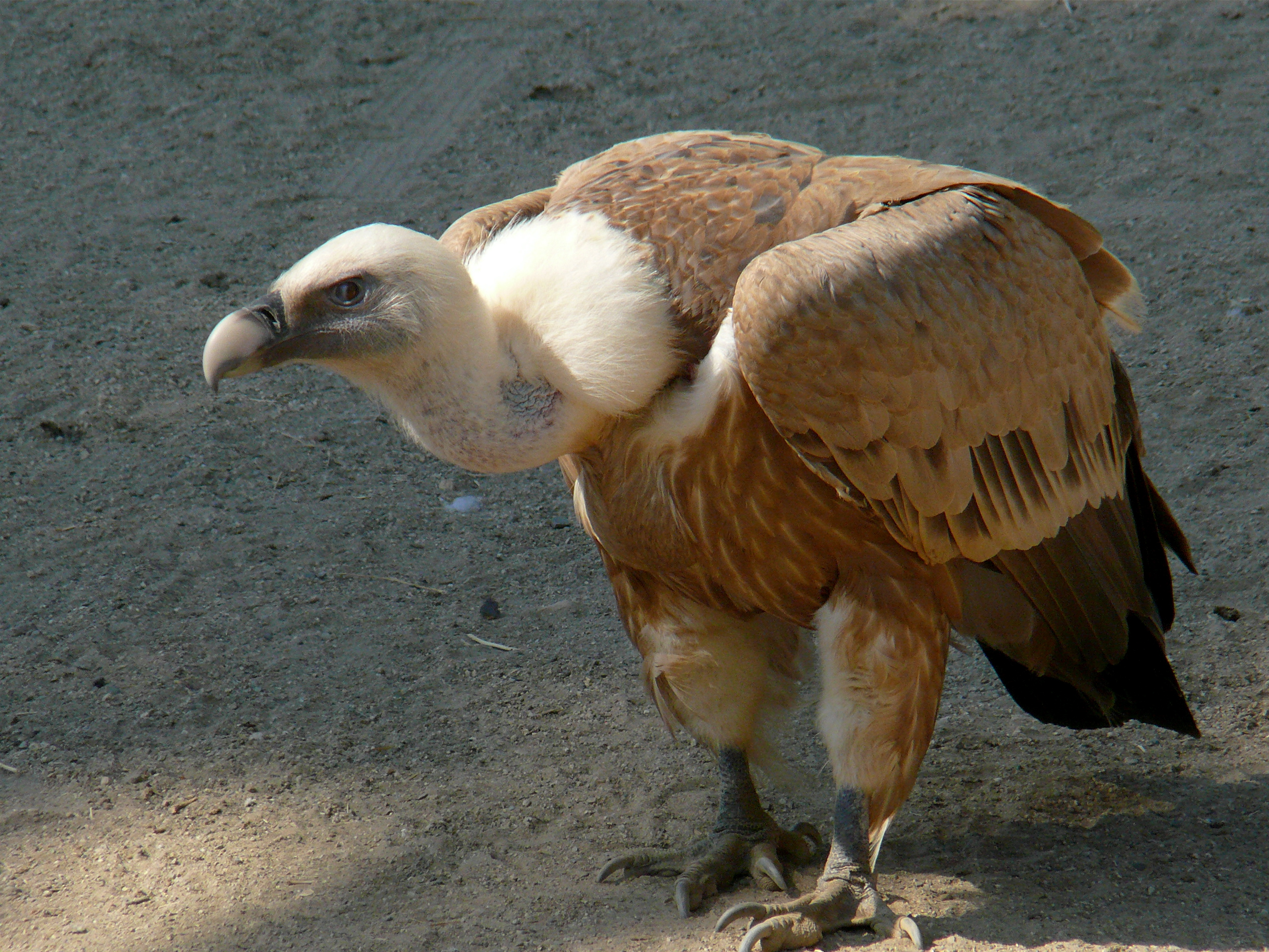 Griffon Vulture (also known as Eurasian Griffon Vulture) at Oakland Zoo, Oakland, California, USA.